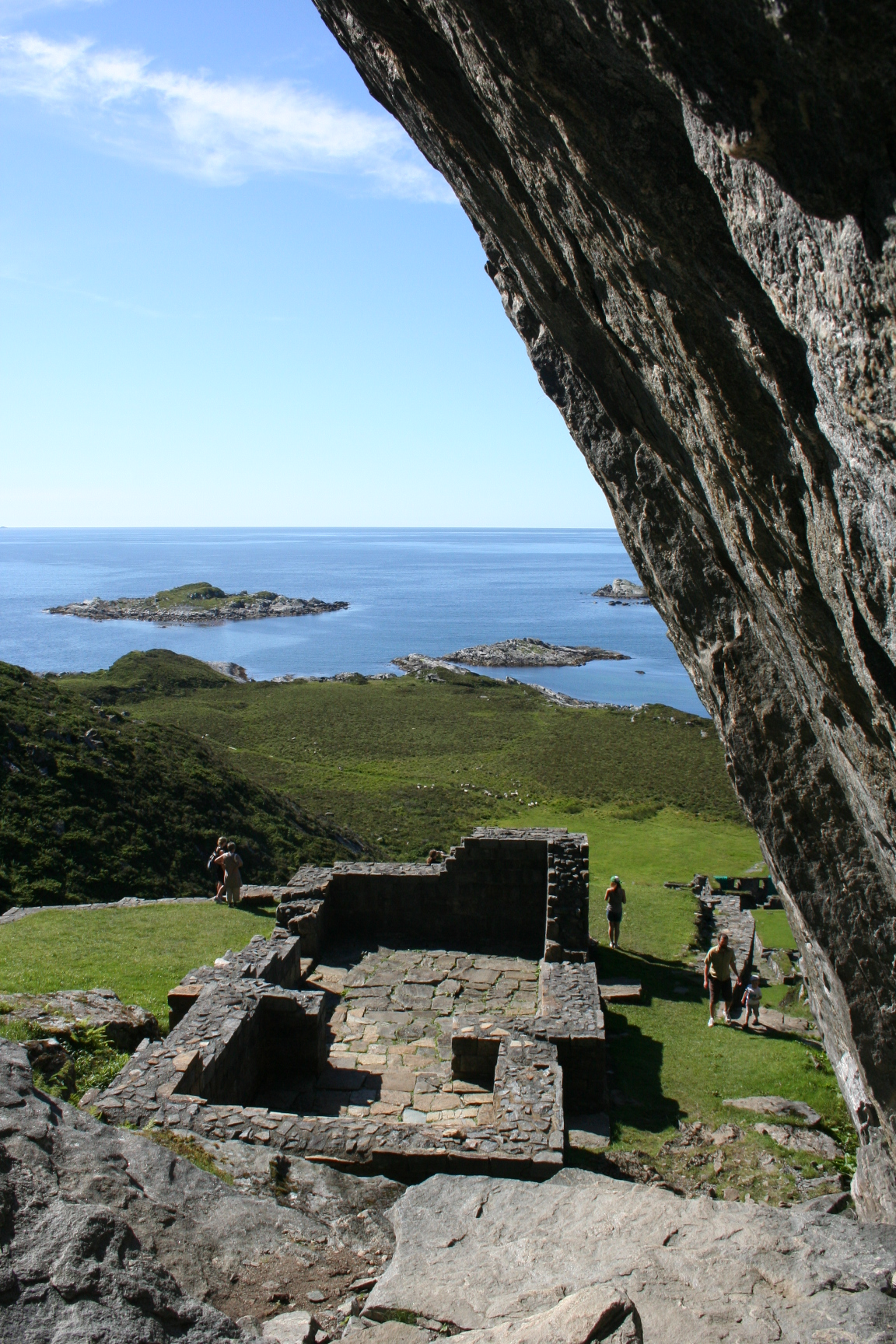 Selje abbey, cliff at the entrance og Michaels church